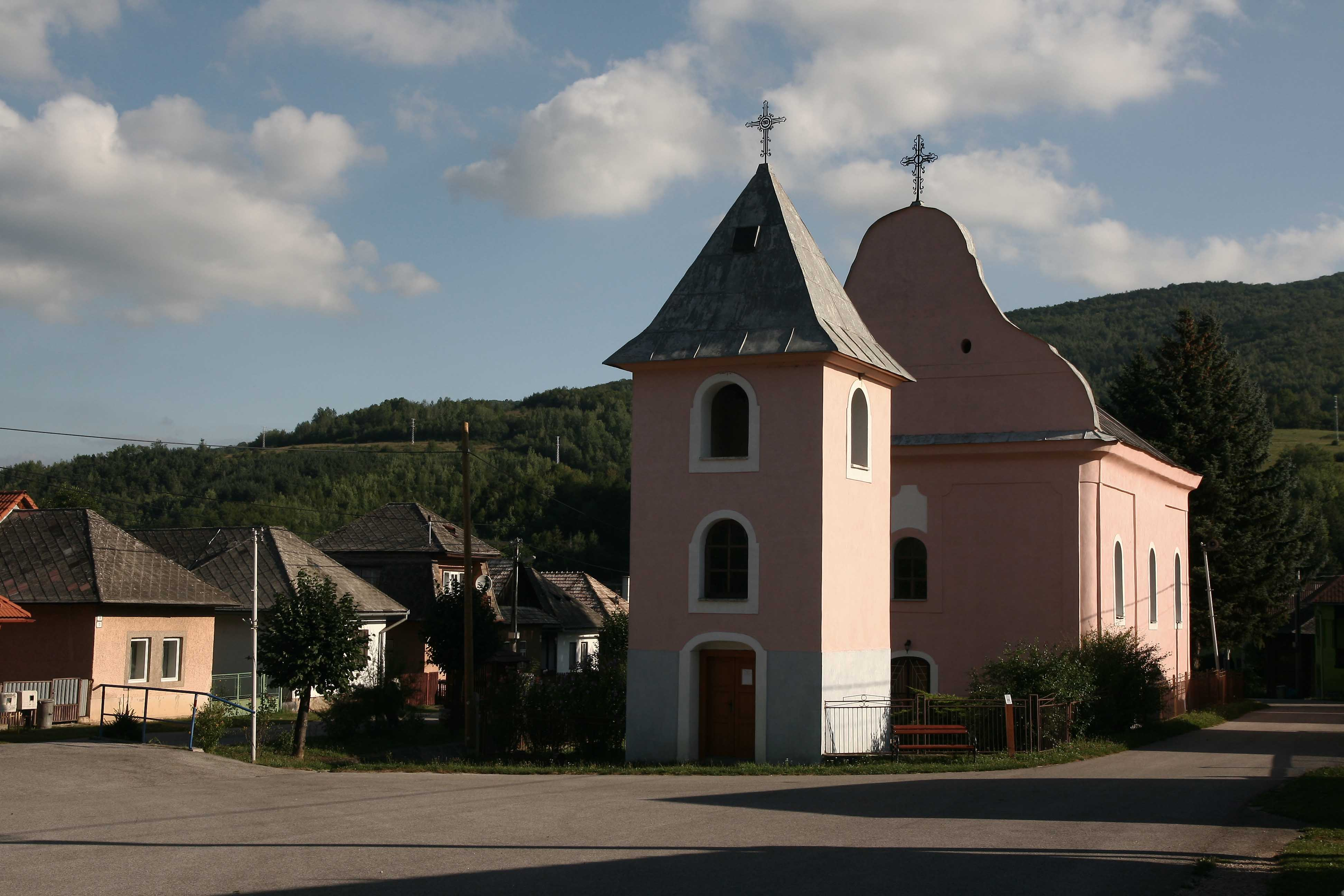 Lutheran Church in Henckovce, Slovakia.